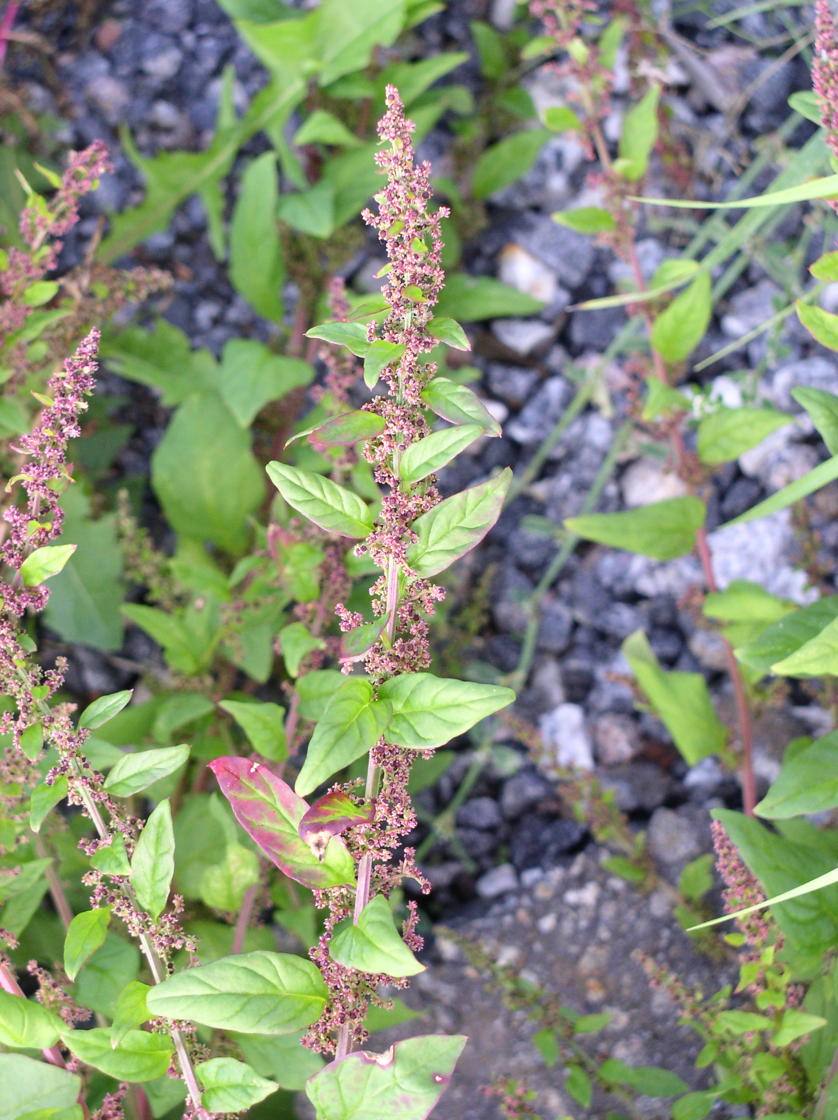 Chenopodium polyspermum (Many-seeded Goosefoot) leaves and flowers in Turku, Finland.